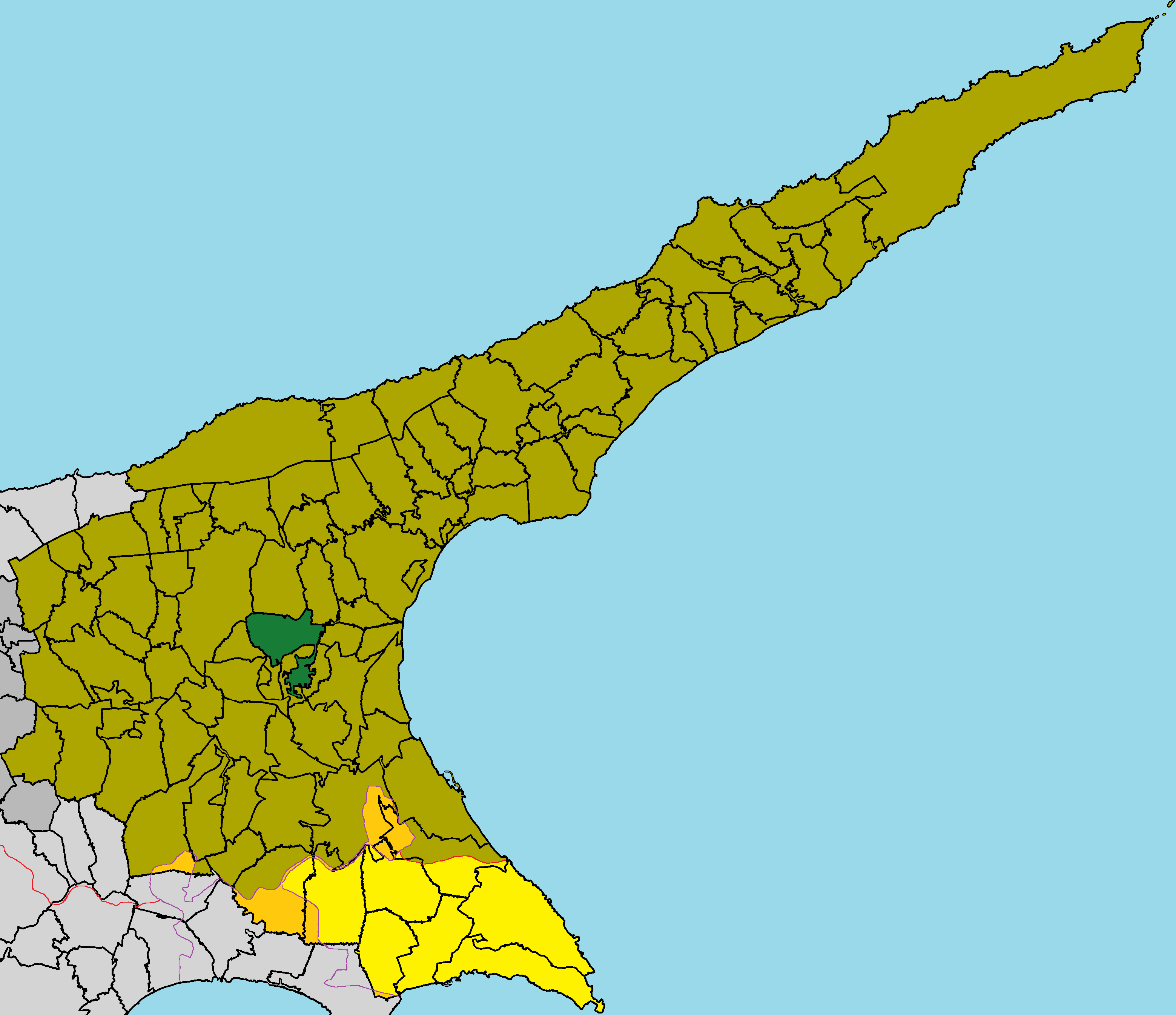 Milia Ammochostou in Famagusta District (de jure).